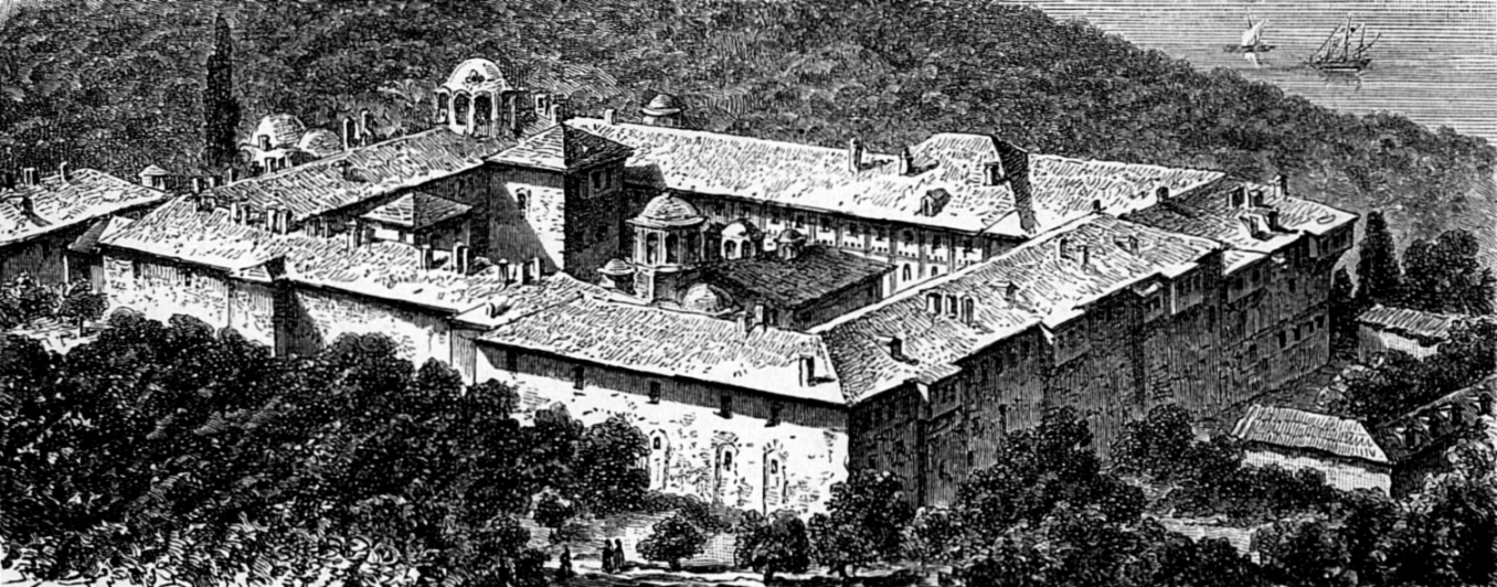 Xeropotamou monastery, drawing